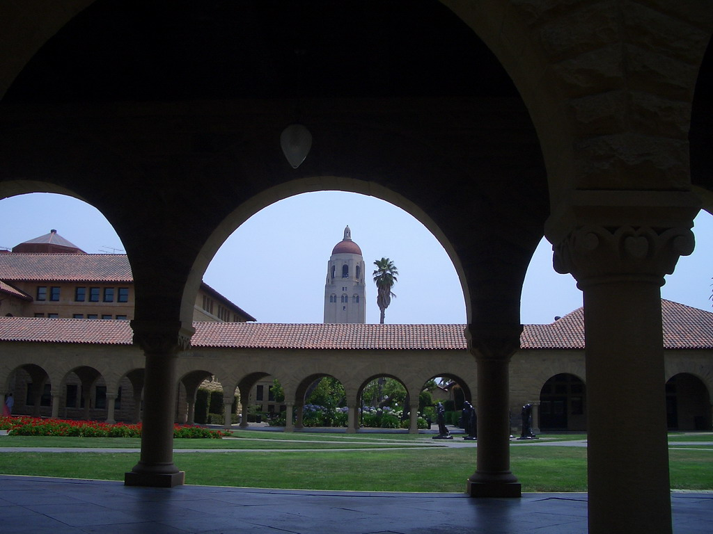 Stanford University - Hoover Tower